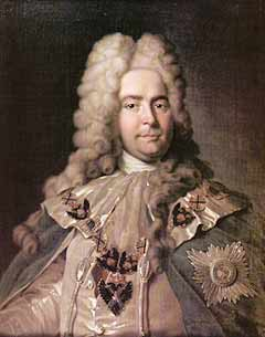 Portrait of Pavel Ivanovitch Yaguzhinskiy (1683-1736)